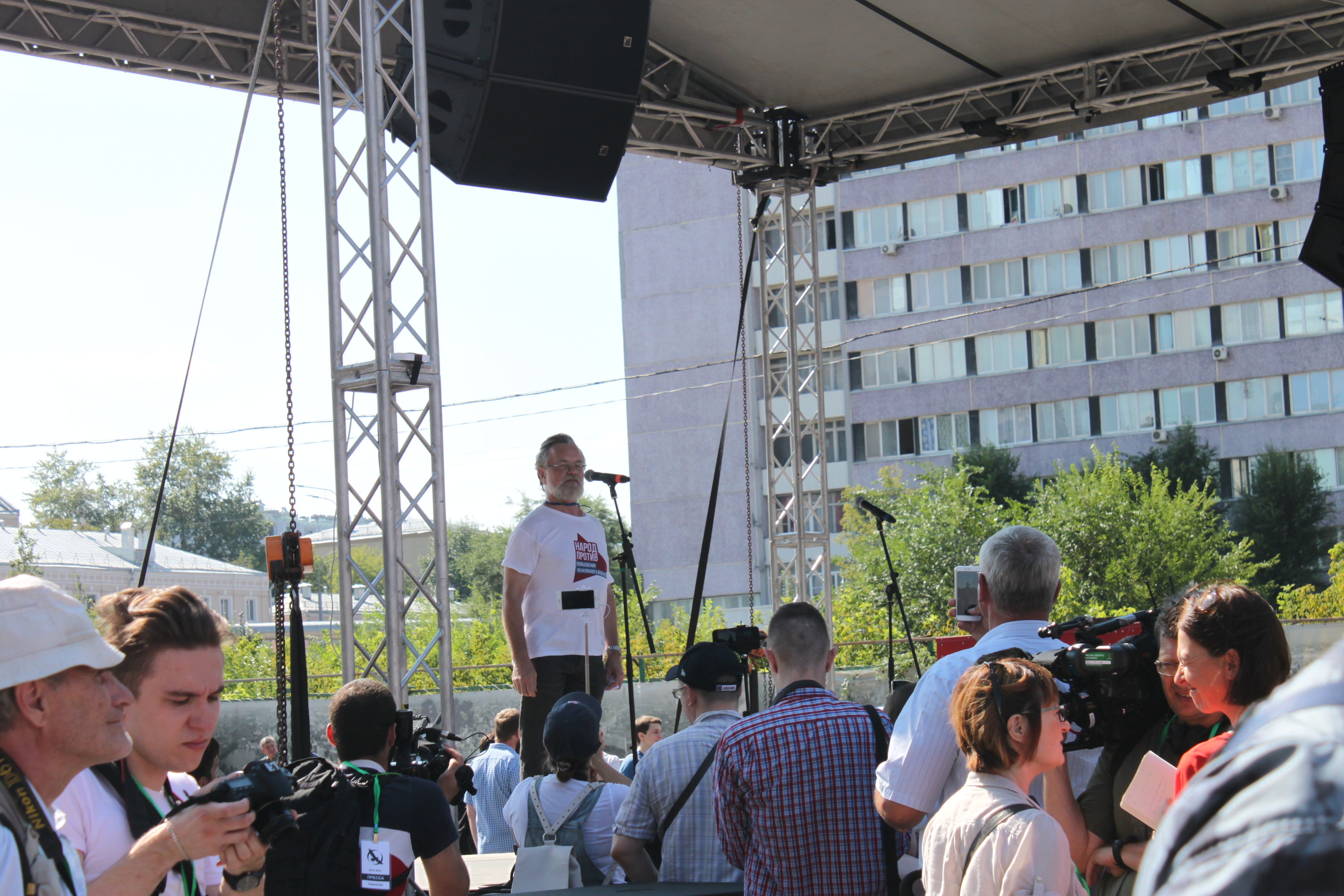 In Moscow on July 29 a rally against extortion was held.